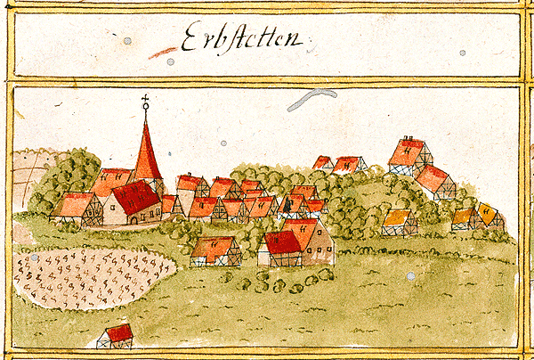 View of Erbstetten, Burgstetten, from the forest register books created by Andreas Kieser